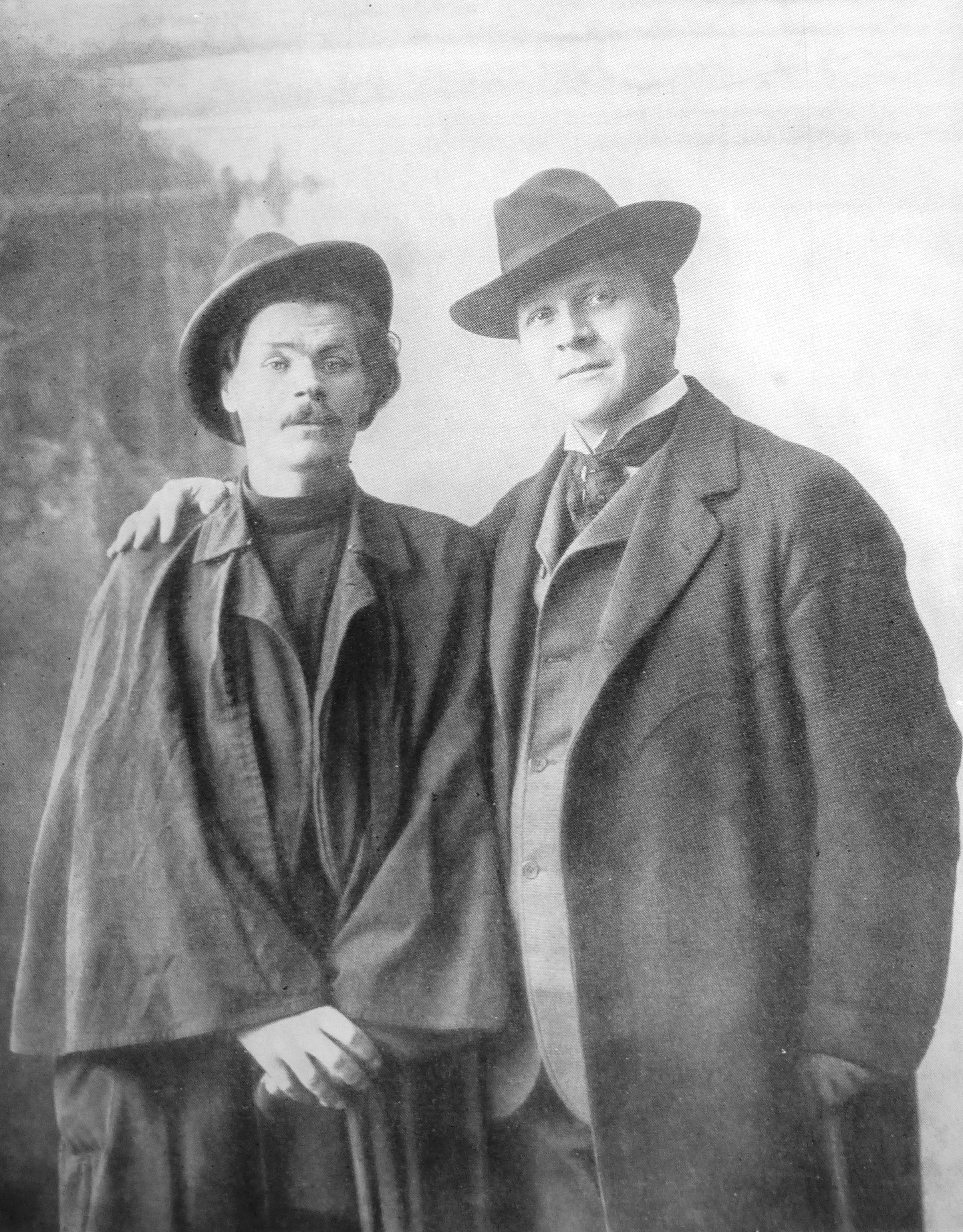 Russian bass Feodor Chaliapin and Russian writer Maxim Gorky